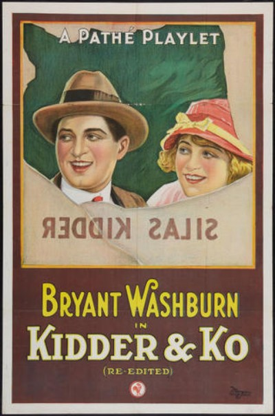 Poster for the 1918 film Kidder & Ko. The film was re-released in 1922; this is the re-release poster.